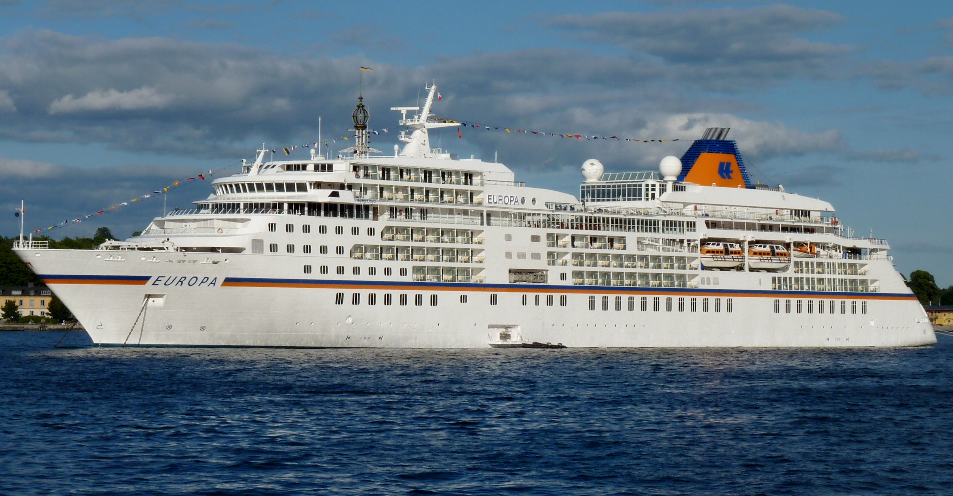 German cruiser Europa in Stockholm harbour